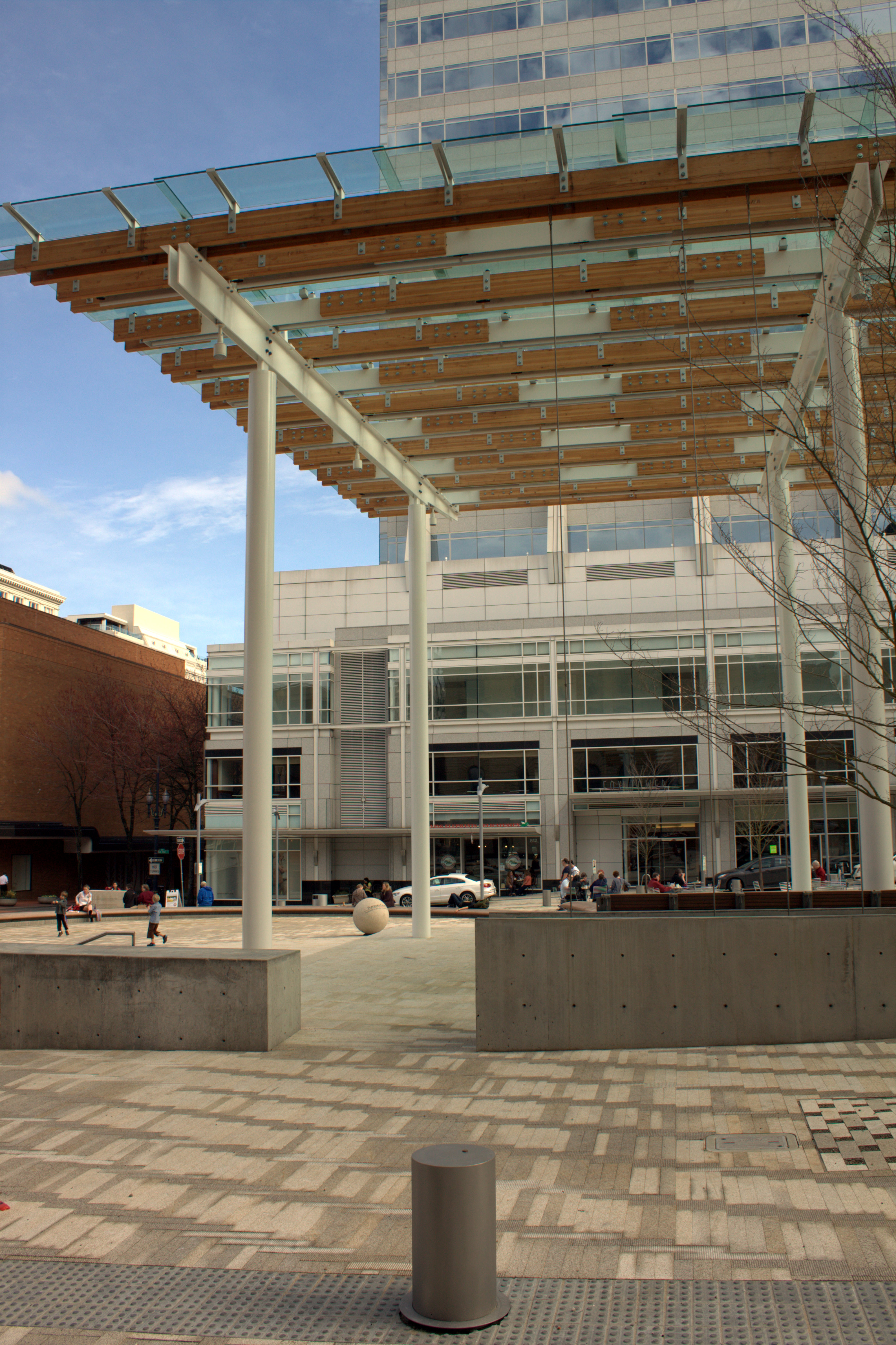 Covered outdoor space at Director Park, Portland, Oregon.